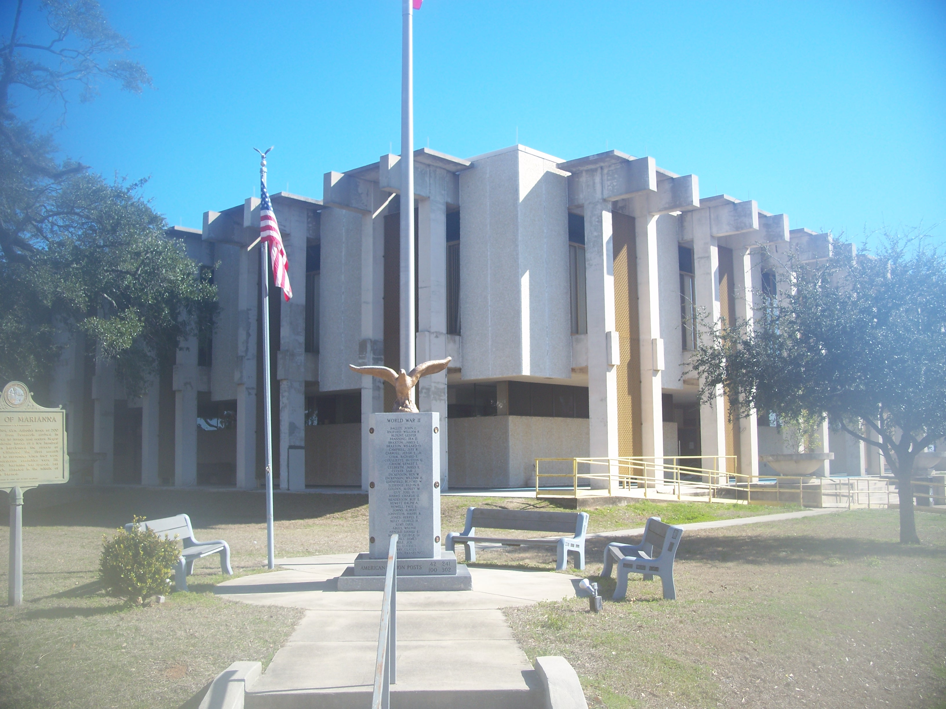 Marianna, Florida: County courthouse